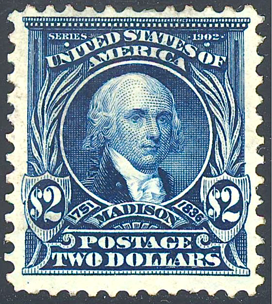 US Postage stamp: James Madison, Issue of 1903, $2, ultramarine blue